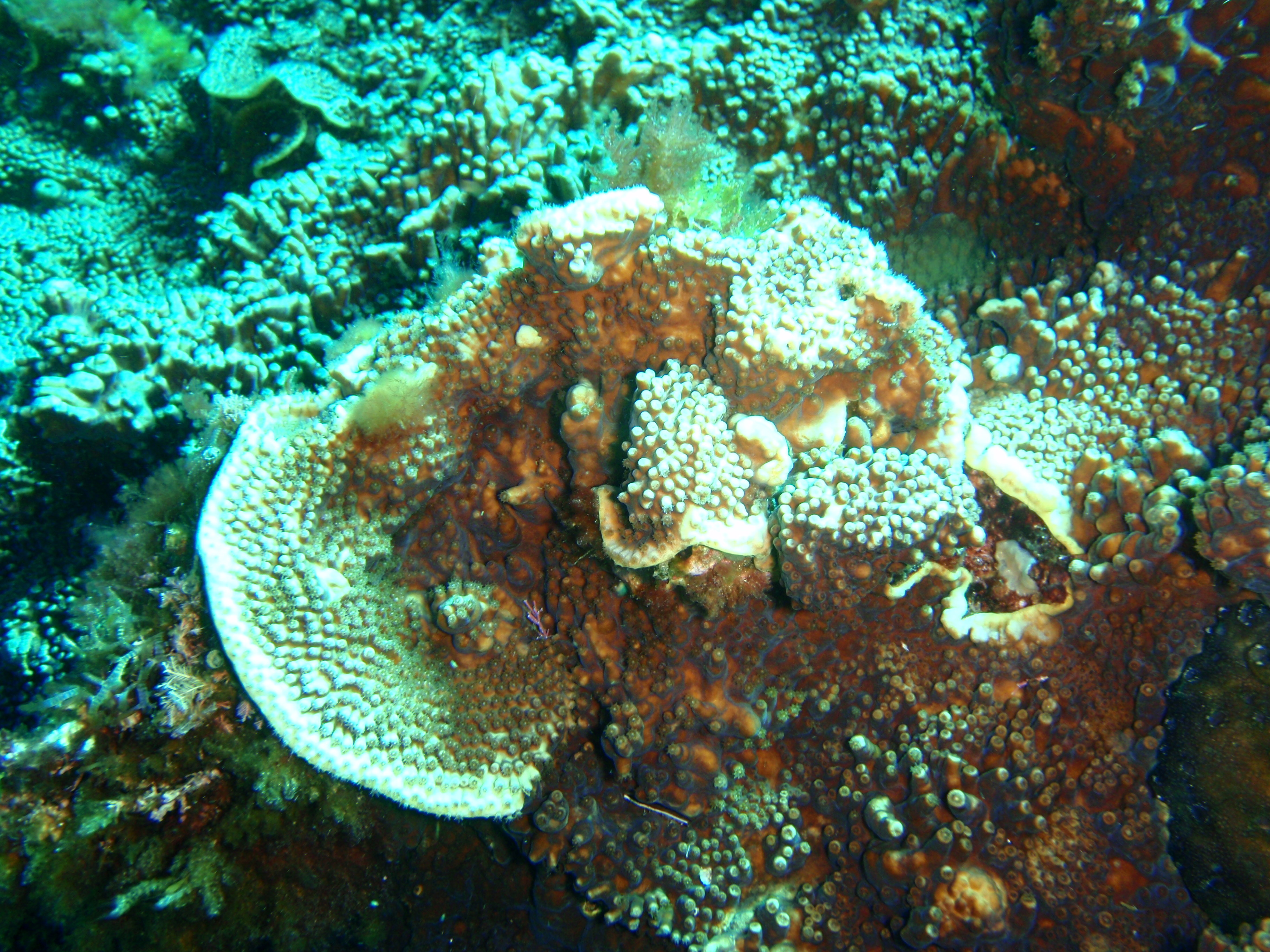 Kidney-shaped coral Tubinaria reniformis at Breaksea Cove in King George Sound, Western Australia